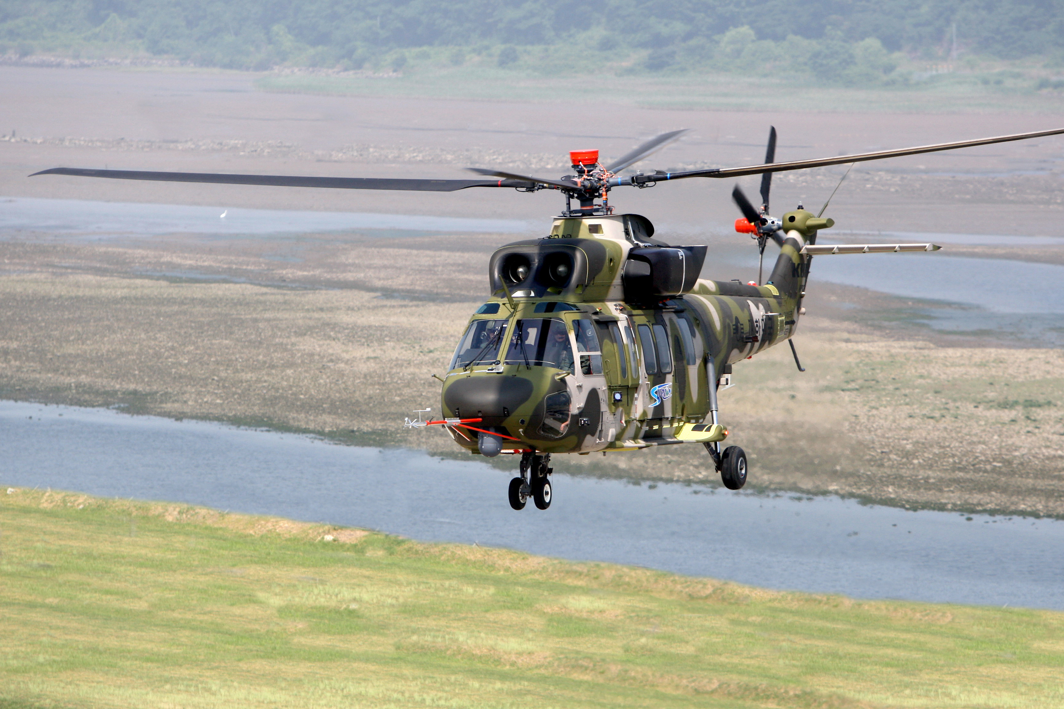 Korean Utility Helicopter Prototype KUH-1 Surion / Test Flight / Photo by KAI (2011) 한국항공우주산업